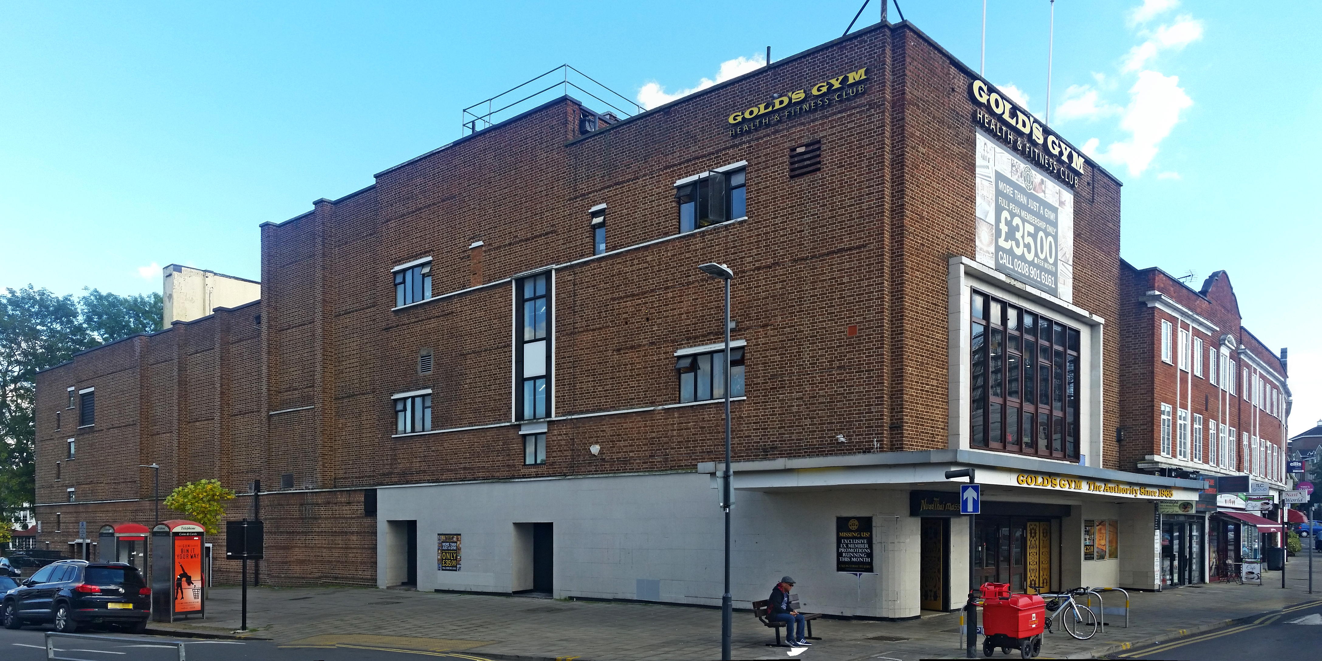 Granada Cinema, Harrow from the north-west Wikidata has entry Q26545656 with data related to this item.